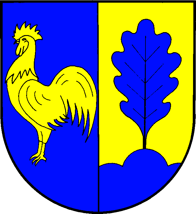 Coat of arms of the municipality Hohn in Schleswig-Holstein, Germany.